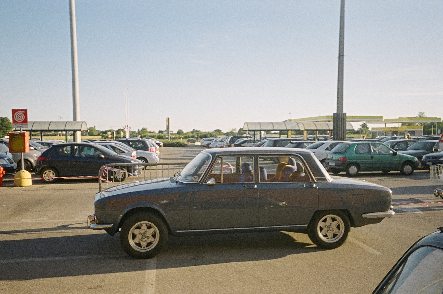 Alfa Romeo 1750 sedan Mk2 (1969-1971)